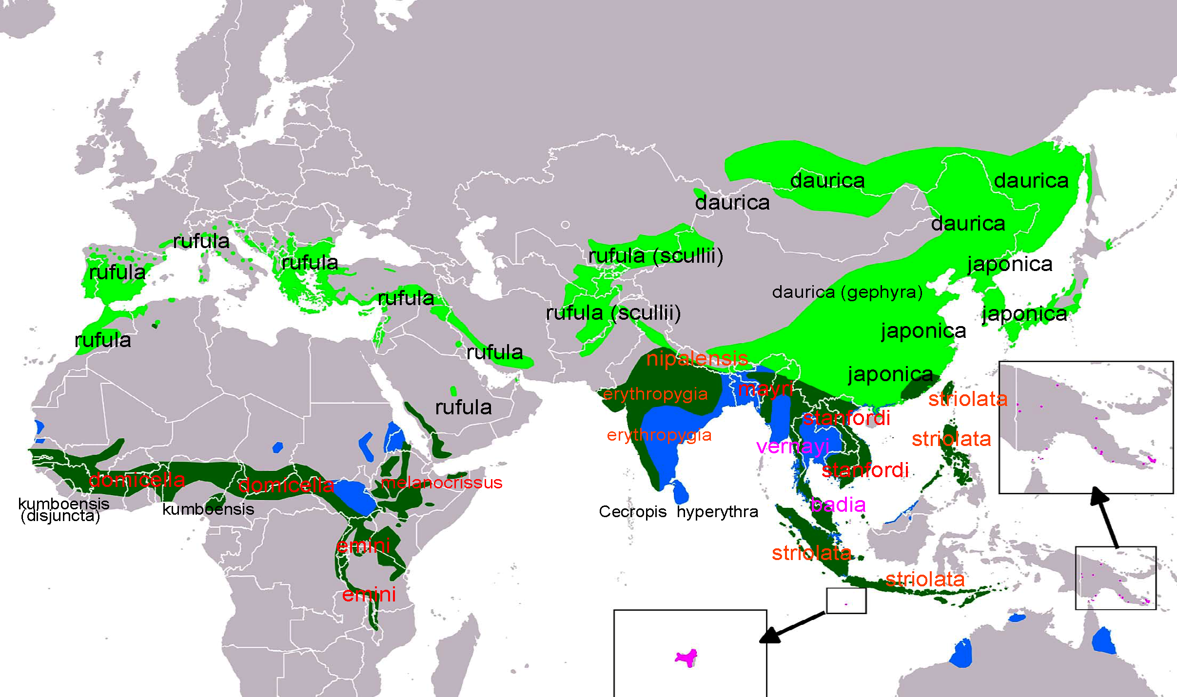 subspecies